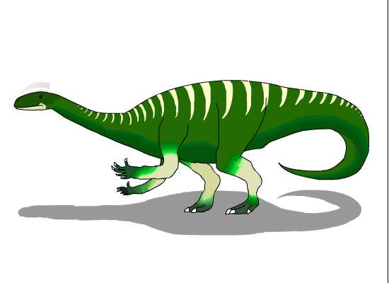 Sketch of the prosauropod Plateosaurus from Europe of the Late Triassic period